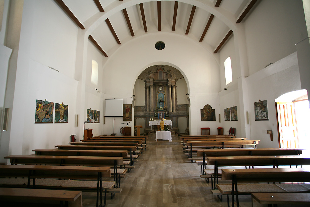 Church in Vidoši.